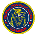 Seal of the Federal Communications Commission